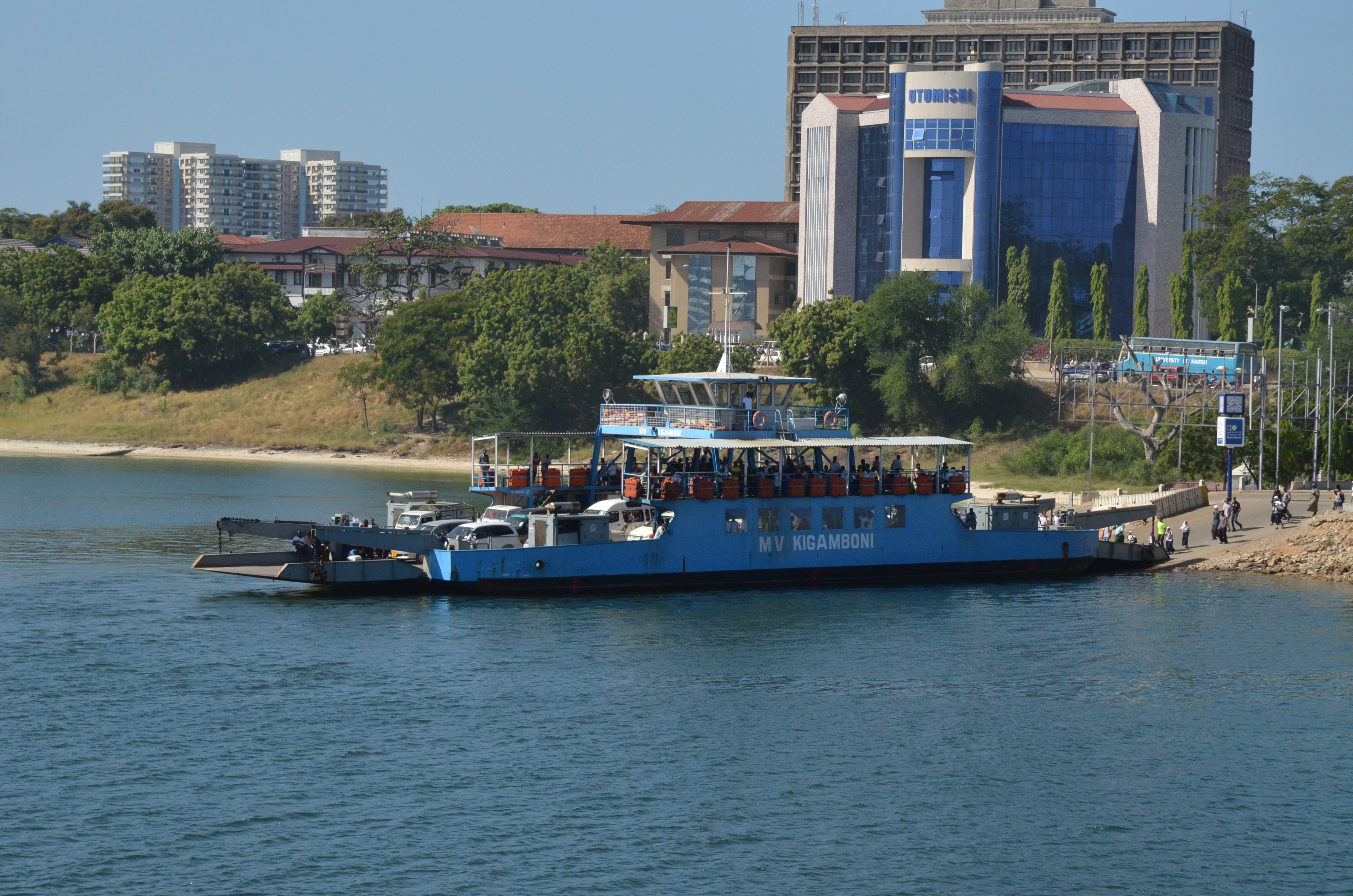 The smaller one of the two ferries running between Posta and (Kivukoni Ferry )Kigamboni in Dar es Salaam, Tanzania.